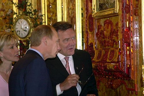 Pushkin (Russia), Catherine Palace, President Putin with German Chancellor Gerhard Schroeder and his wife, Doris Schroeder-Koepf, in the Amber Room.